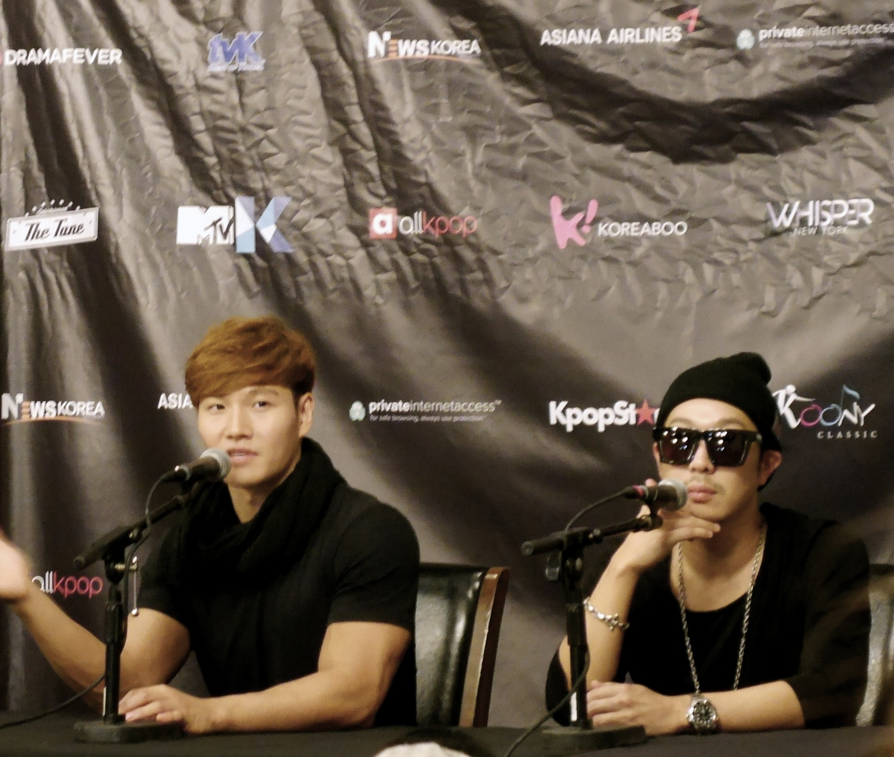 Running Man Brothers, Kim Jong-kook and Haha on stage, Running Man Bros US Tour 2014, Dallas